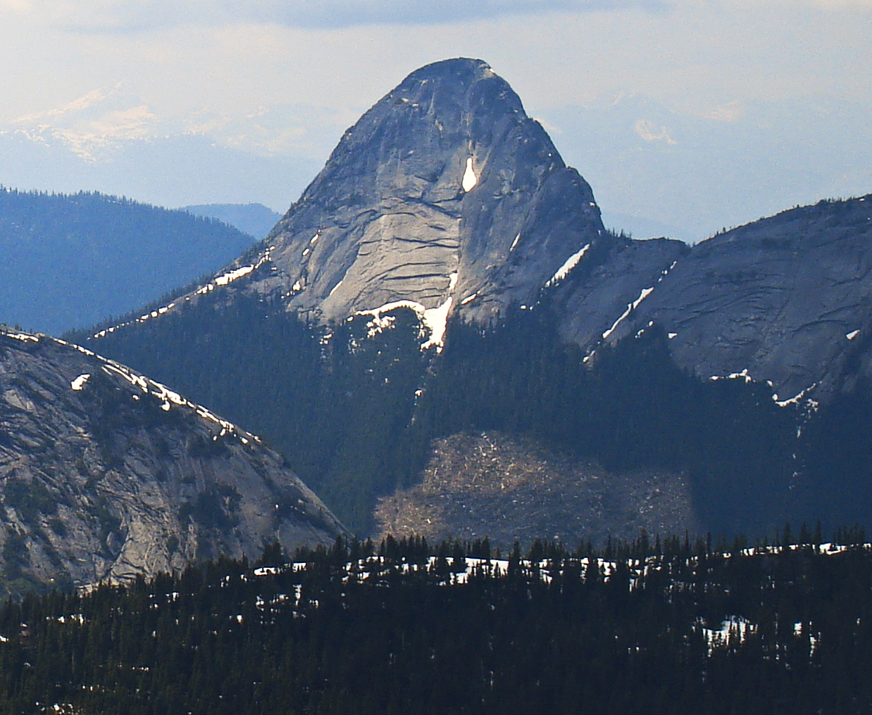 Gemse Peak in the Canadian Cascades